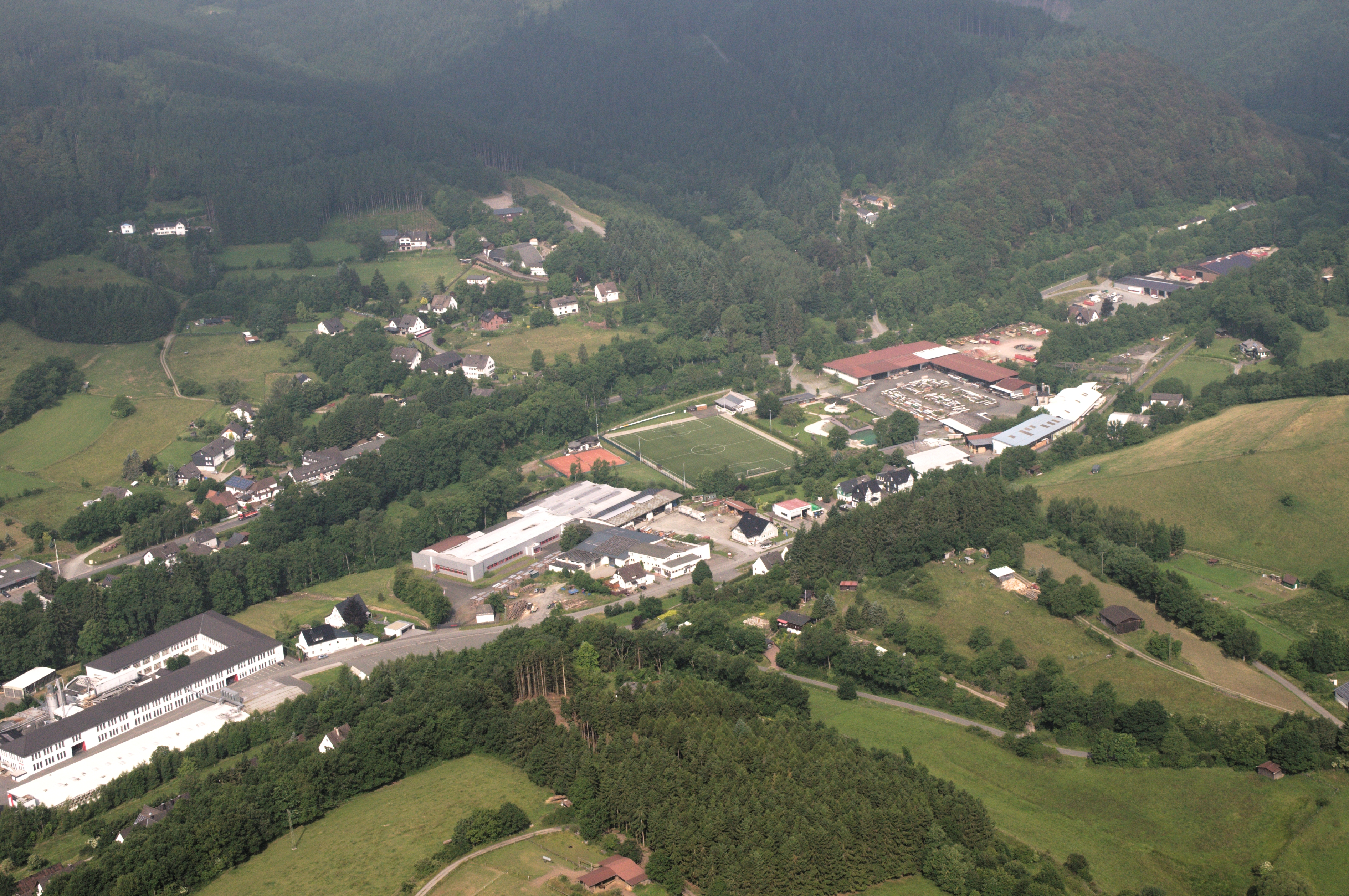 Fotoflug Sauerland-Ost: Industriegebiet im Norden Hallenbergs (Sägewerk Hesse, Naturbad Hallenberg, Sportplatz des FC Nuhnetal und Tennisplatz des Tennisclubs Nuhnetal) The making of this document was supported by the Community-Budget of Wikimedia Germany.